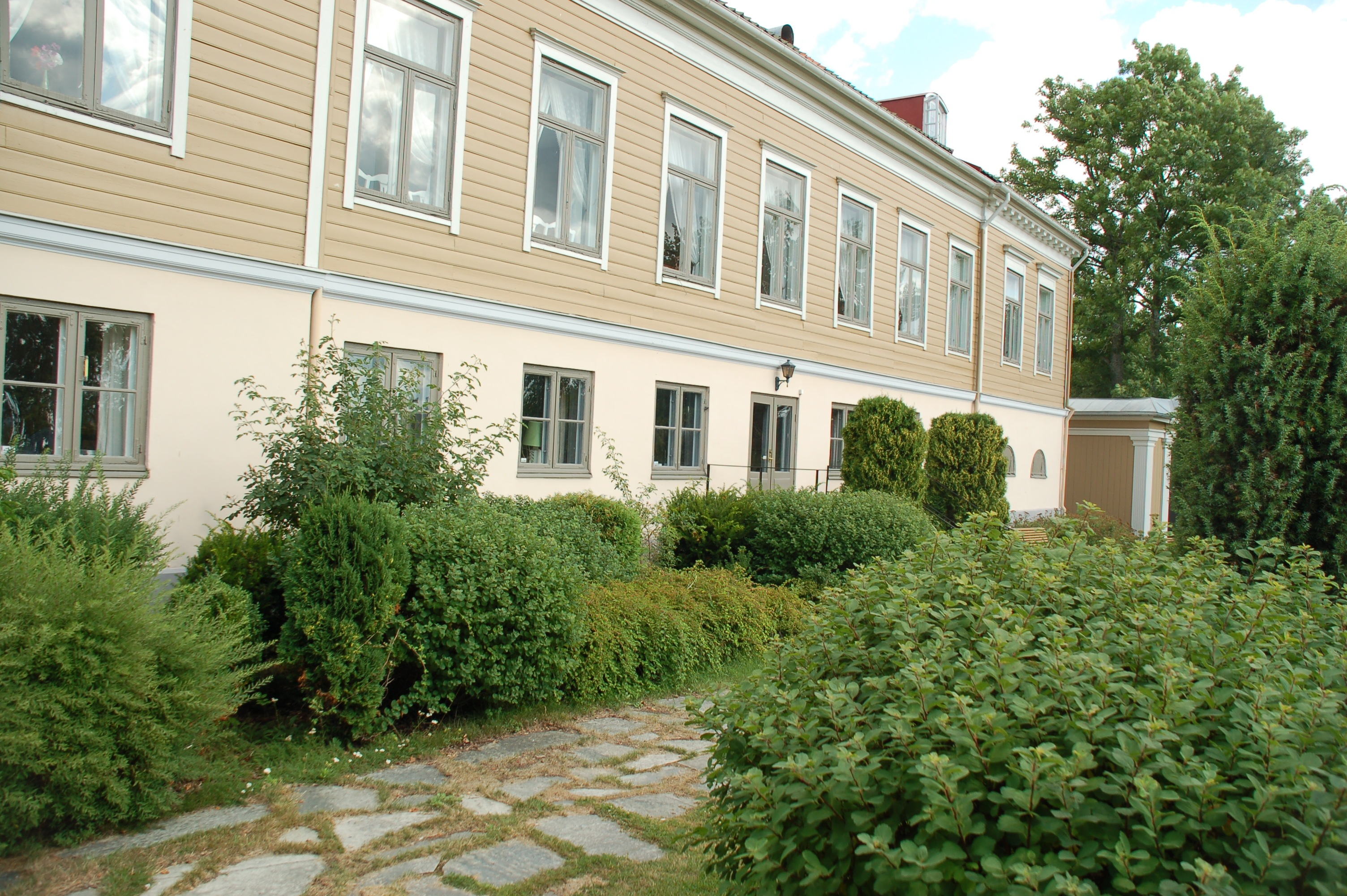 The Commanders residence, Fredriksten fortress, Halden, Norway